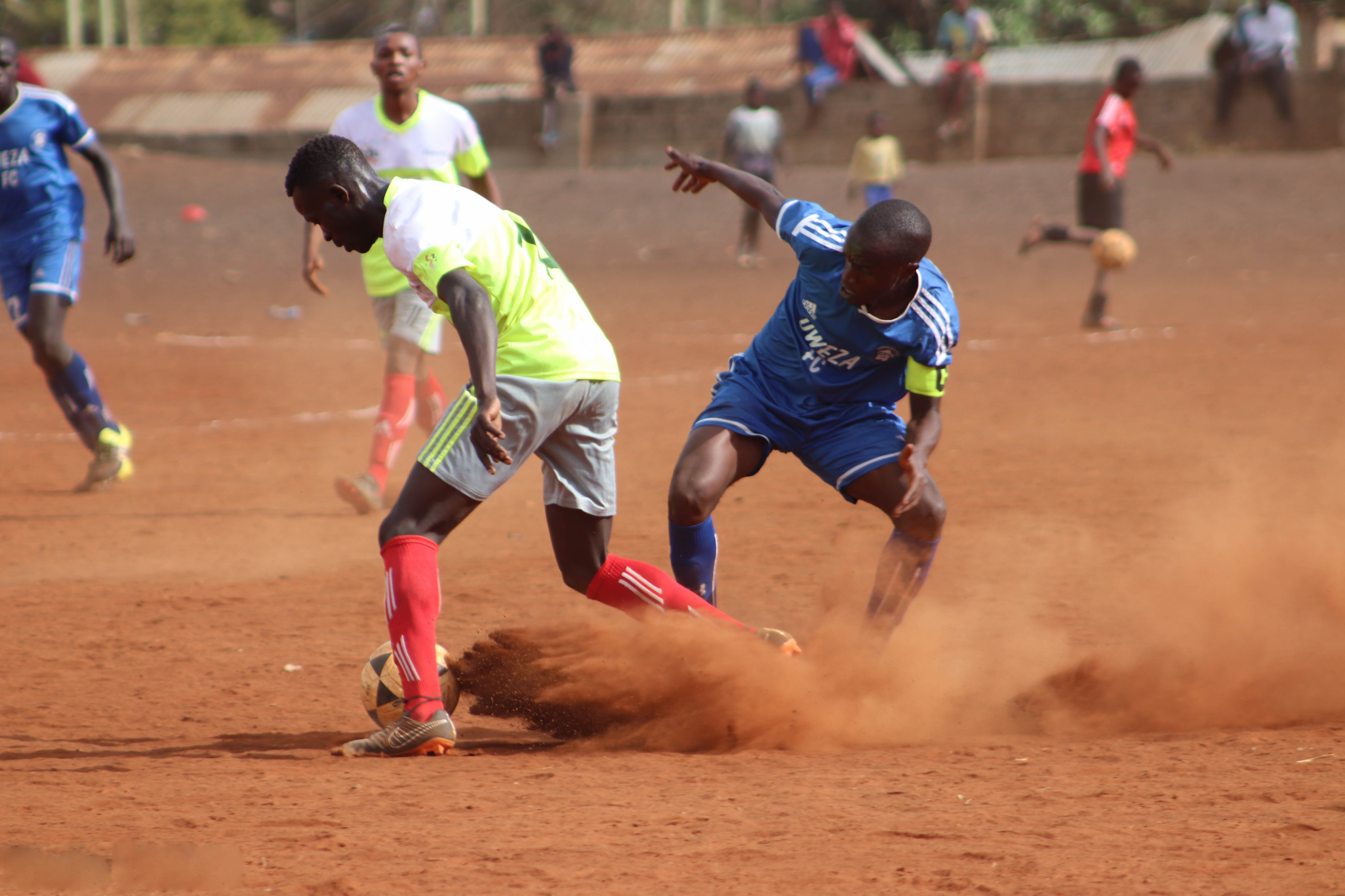 How kibrera footballers play on dirt grounds